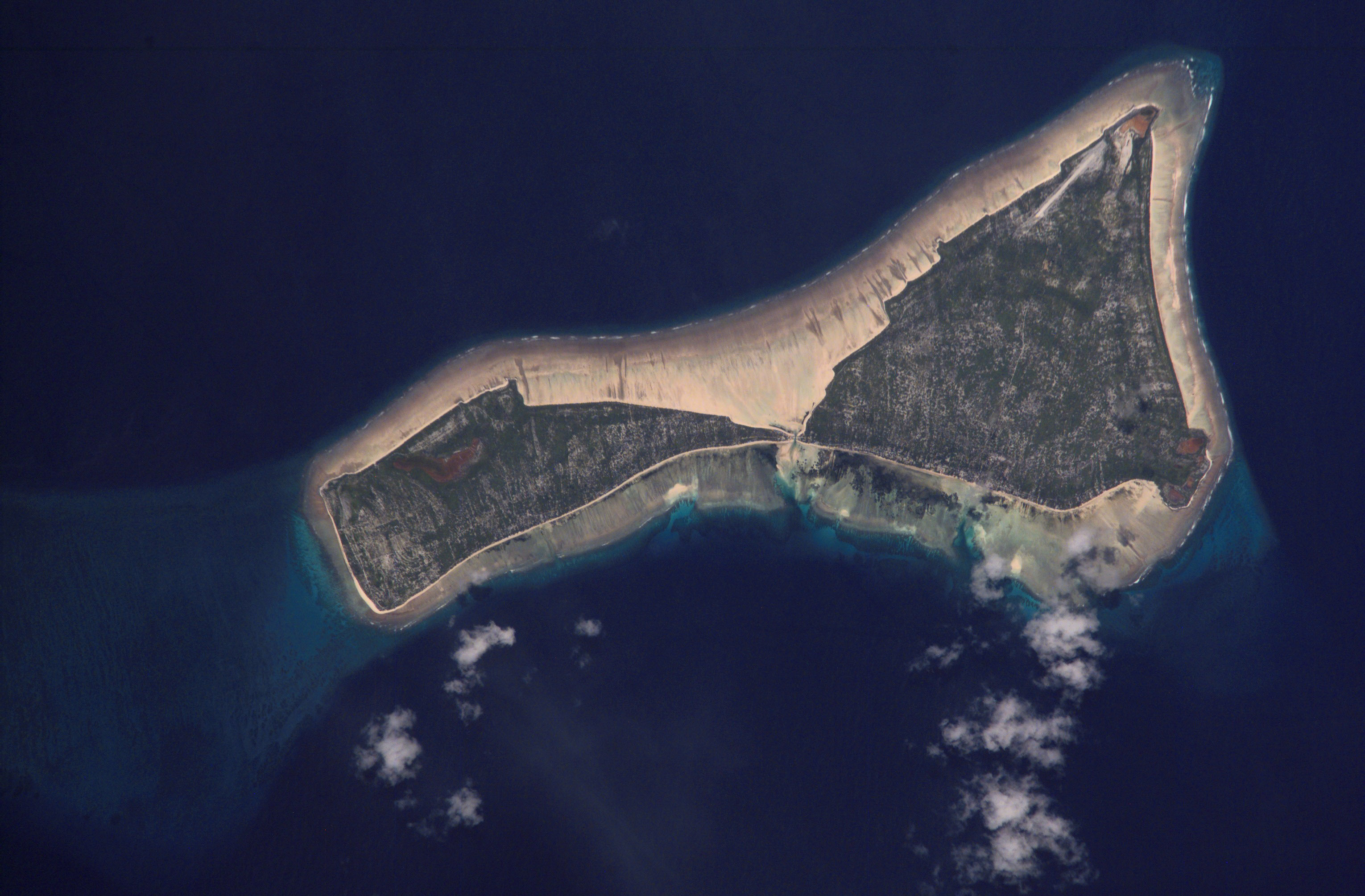 NASA astronaut image of Kuria Atoll, Gilbert Islands, Kiribati ISS Crew Earth Observations: ISS002-E-6660IdentificationMissionISS002 (Expedition 2)RollEFrame6660Country or Geographic NameKIRIBATIFeaturesBUARIKI, KURIA ISLANDCenter Point Latitude0.0° NCenter Point Longitude173.5° ECameraCamera Tilt25°Camera Focal Length800 mmCameraKodak DCS460 Electronic Still CameraFilm3060 x 2036 pixel CCD, RGBG array.QualityPercentage of Cloud Cover0-10%Nadir What is Nadir?Date2001-05-20Time23:31:58Nadir Point Latitude1.6° NNadir Point Longitude173.0° ENadir to Photo Center DirectionSouthSun Azimuth34°Spacecraft Altitude212 nautical miles (393 km)Sun Elevation Angle67°Orbit Number2284